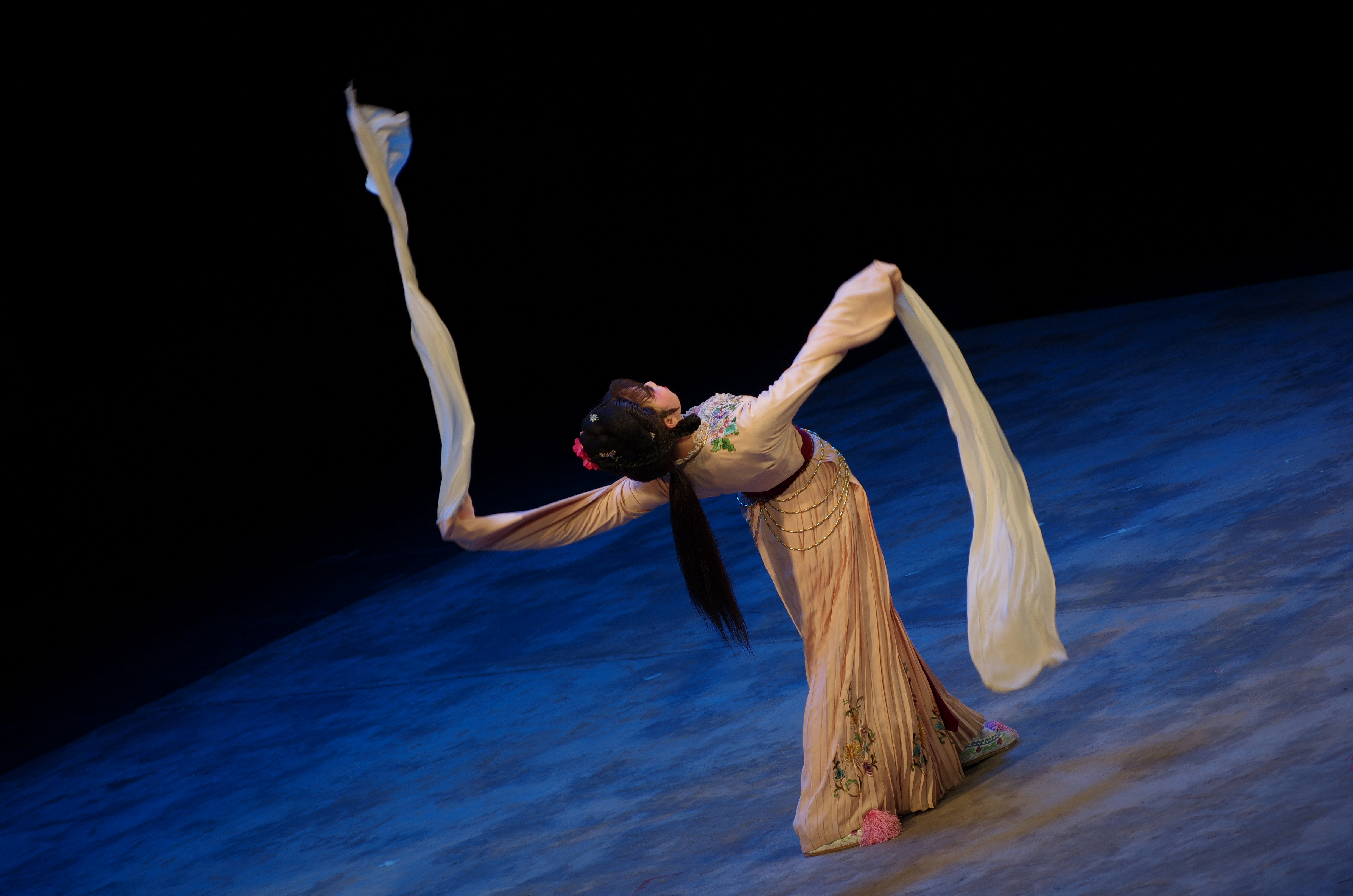 A Shaoxing opera performance of Yulan Ji in Tianchan Theatre, Shanghai, China. The actresses were students at Shanghai Theatre Academy.